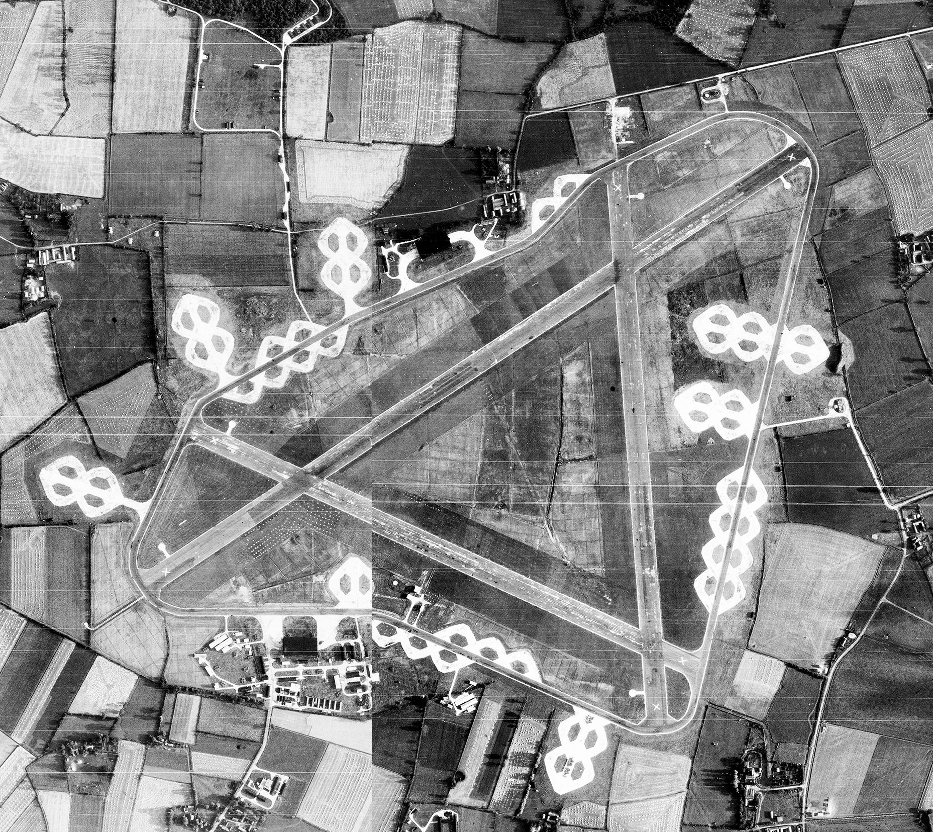 Aerial photograph mosaic of RAF Fearsfield (Winfarthing) airfield, looking north, the bomb dump is at the top, the technical site- with T2 hangar- at the bottom, 29 August 1946. Photograph taken by No. 541 Squadron, sortie number RAF/106G/UK/1707. English Heritage (RAF Photography).